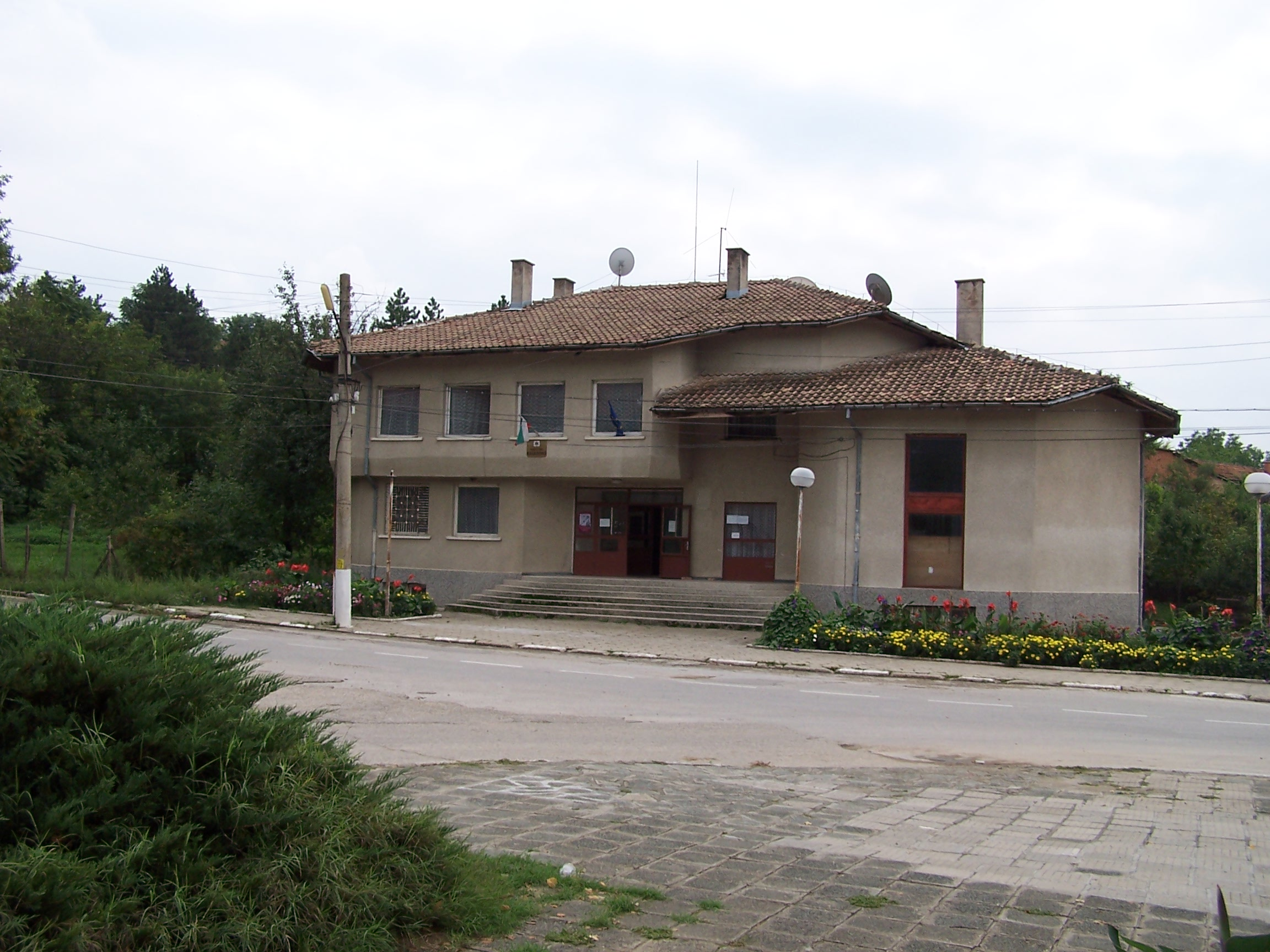 The Town Hall / Mayors Office in Katselovo, Bulgaria.